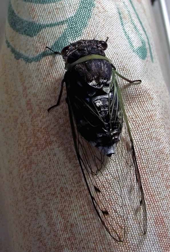 insect in a window